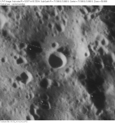 Rankine lunar crater - image LO-IV-178H LTVT.